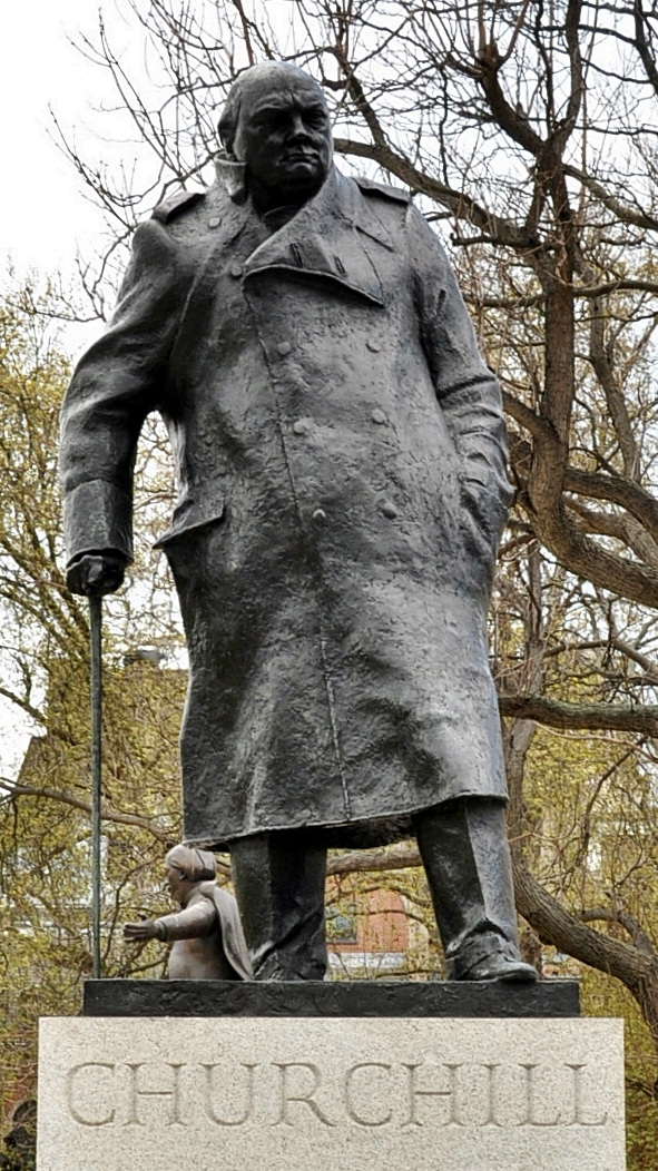 Winston Churchill statue, Parliament Square, London by Ivor Roberts-Jones C.B.E. R.A.